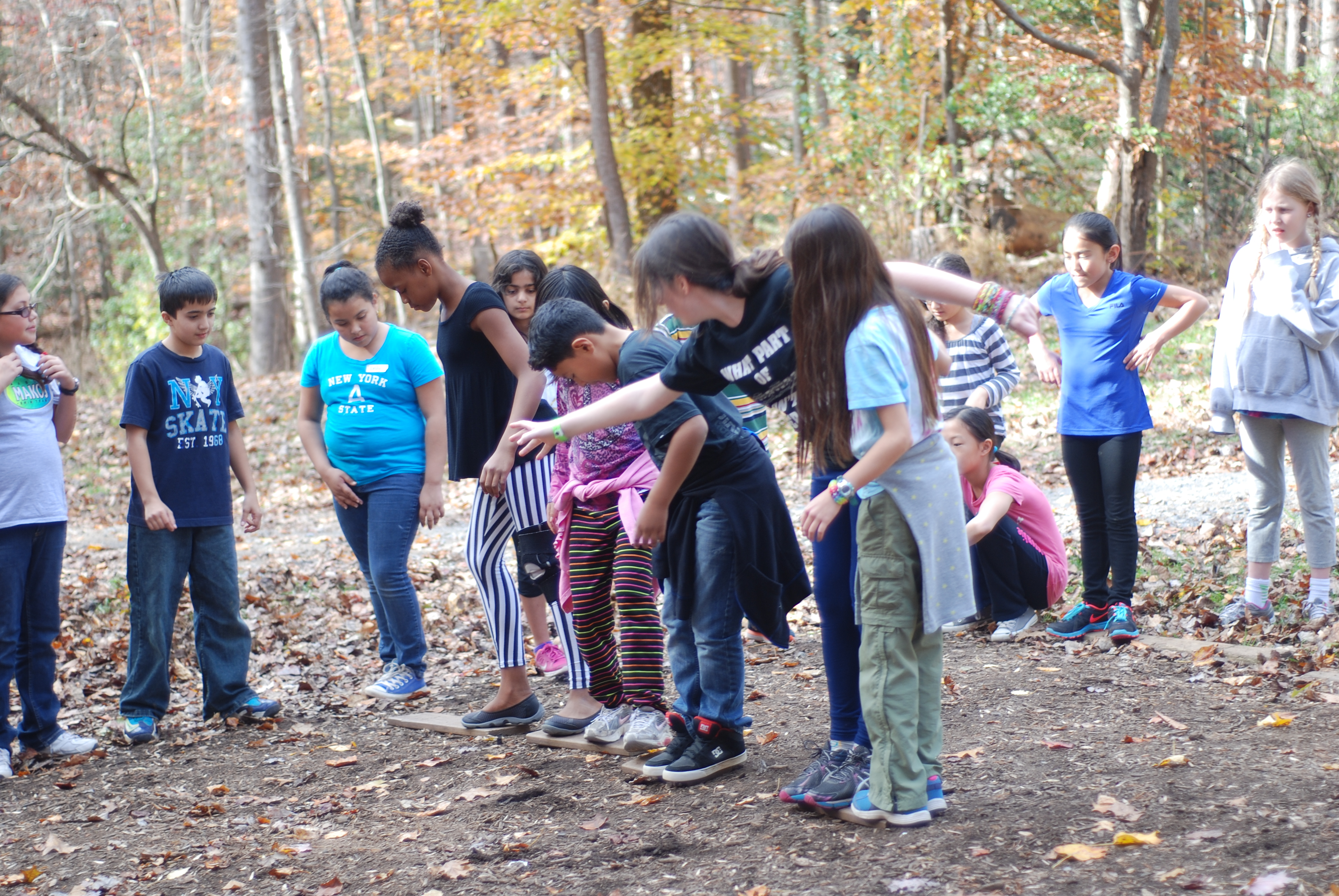 Hemlock Overlook Challenge Course: Game of "Swamp Crossing" where kids have to come up with a strategy that will allow them to cross a "swamp" using portable islands (boards). Often discussing, agreeing on a strategy and executing it as a team is the hardest part of the task.